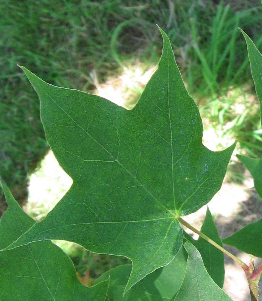 Close-up of an Acer Truncatum (Shantung Maple) leaf, photographed at the University of Idaho Arboretum and Botanical Garden